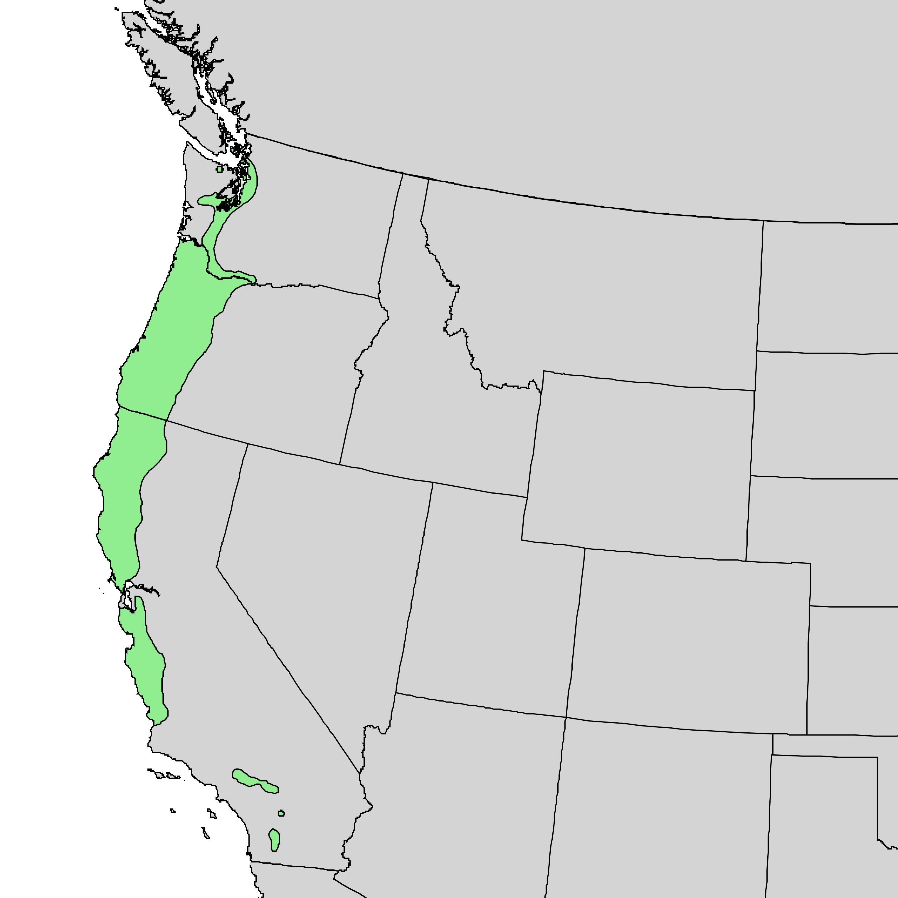 Natural distribution map for ssss